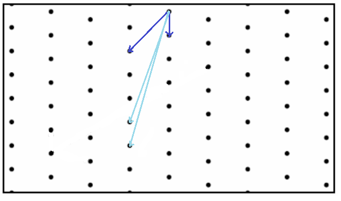 two-dimensional lattice with two bases